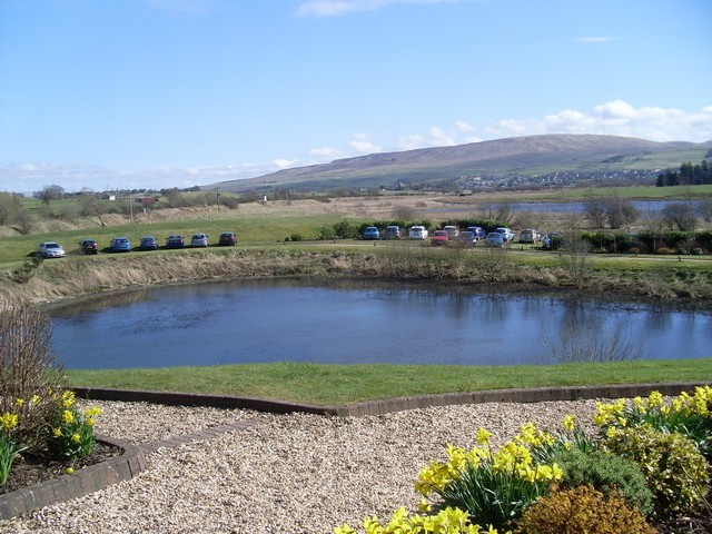 Loch o' th' Lowes The view south from in front of the entrance to the Lochside House Hotel.